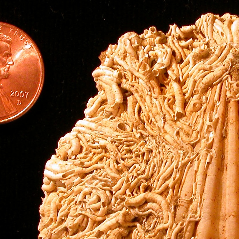 Photograph taken by Mark A. Wilson (Department of Geology, The College of Wooster). [1]